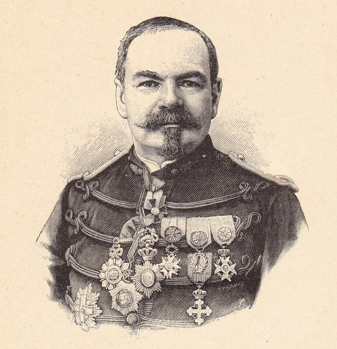 French military officer and writer Albert de Rochas d'Aiglun (1837-1914)